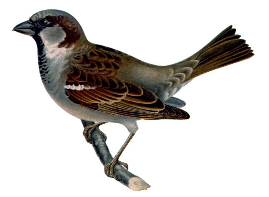 A drawing of a male House Sparrow by Wilhelm von Wright